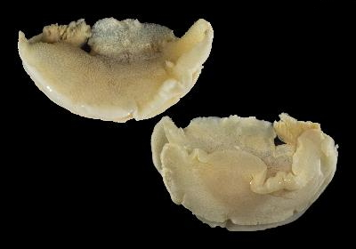 Tayuva lilacina (Gould, 1852) (synonym: Discodoris confusa Ballesteros, Llera & Ortea, 1985); family Discorididae; Canary Islands